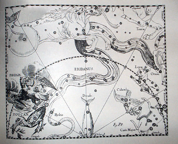 Johannes Hevelius, Prodromus Astronomia, volume III: Firmamentum Sobiescianum, sive Uranographia, table PP: Eridanus, Phoenix and Tucana, 1690.